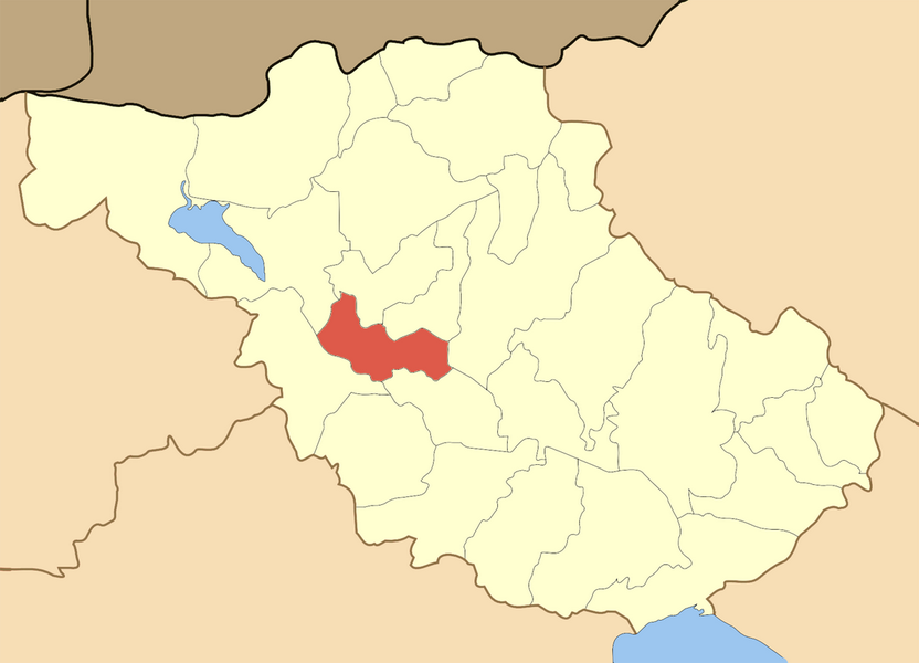 Locator map of Mitrousi municipality in Serres perfecture in Greece.